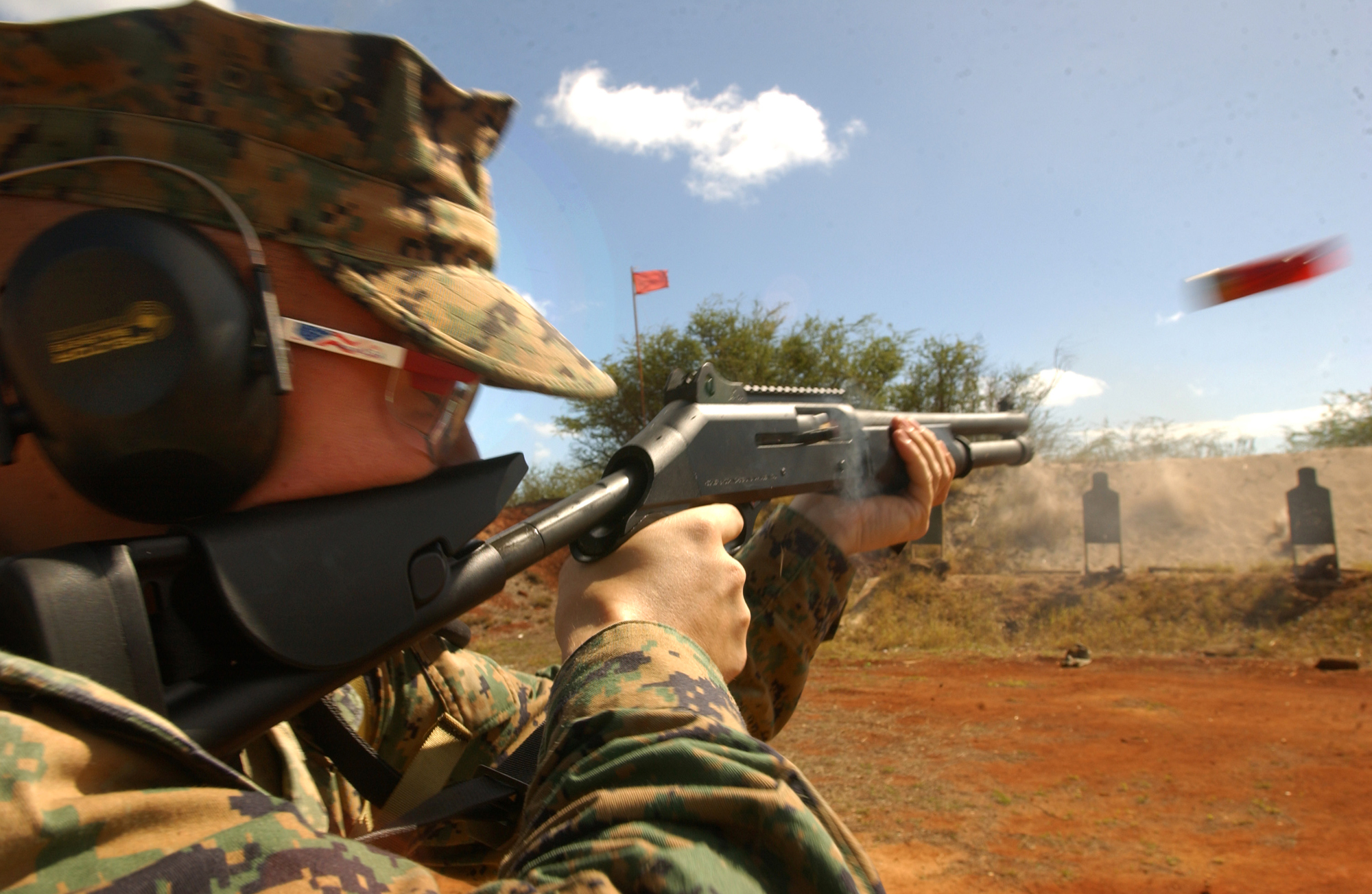 Benelli U.S.A. Corporation. M-1014 combat shotgun in action in United States Marine Corps